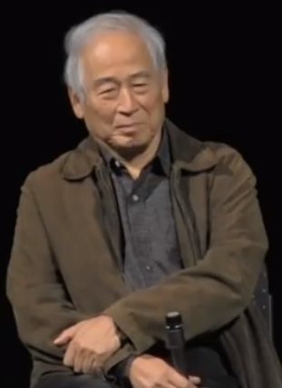 Conversation #4: Tadashi Suzuki in conversation with Anne Bogart Saturday, June 3 Tadashi Suzuki is the founder and director of the Suzuki Company of Toga (SCOT) based in Toga Village, located in the mountains of Toyama prefecture. He is the organizer of Japan’s first international theatre festival (Toga Festival), and the creator of the Suzuki Method of Actor Training.